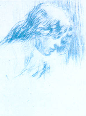 Whistler's beloved, Joanna Hiffernan, who was his model for his three "symphonies"